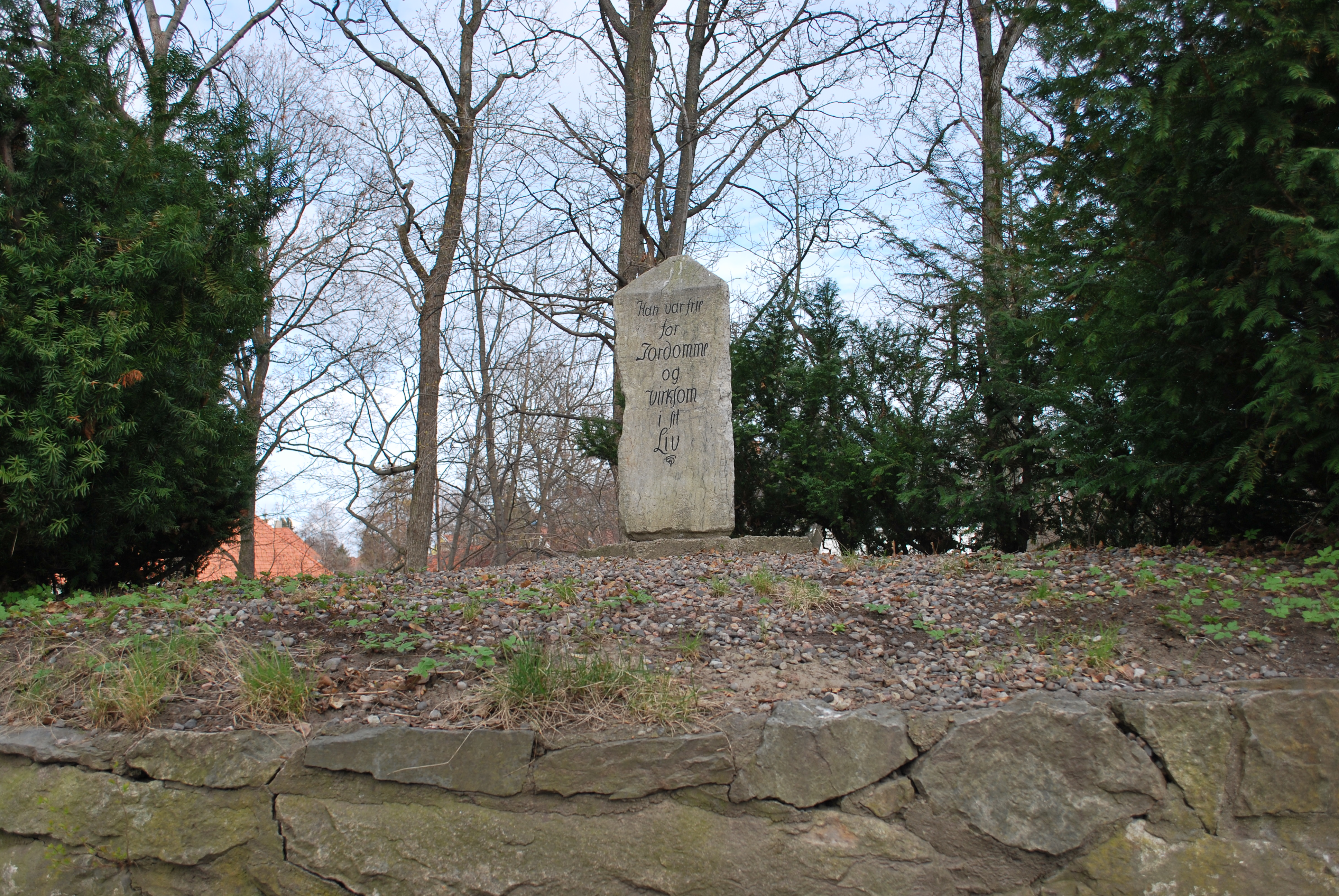 Halvor Blinderen's gravstone, south side. Halvor Blindernens plass (square), Blindern , Oslo